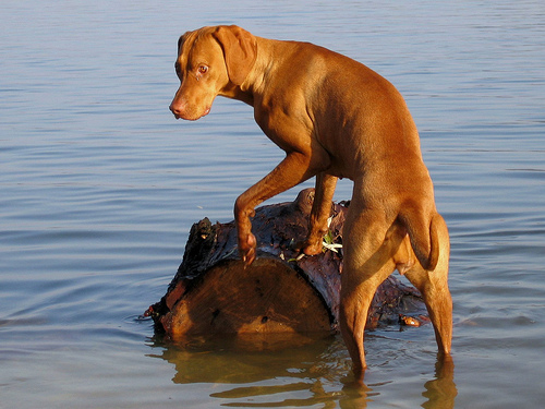 a picture of a vizsla